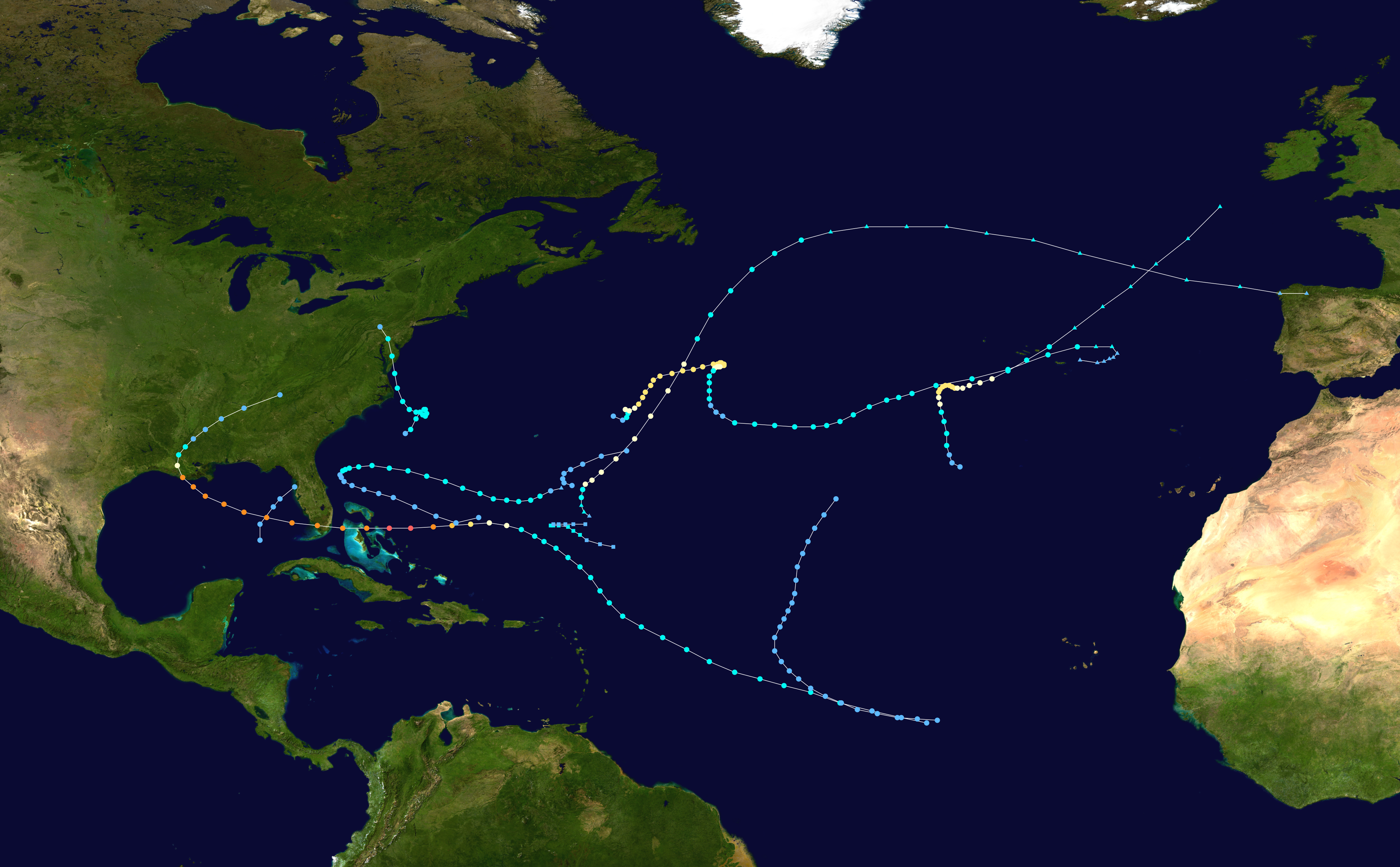 This map shows the tracks of all tropical cyclones in the 1992 Atlantic hurricane season. The points show the location of each storm at 6-hour intervals. The colour represents the storm's maximum sustained wind speeds as classified in the Saffir-Simpson Hurricane Scale (see below), and the shape of the data points represent the type of the storm. Saffir–Simpson scale Tropical depression≤38 mph≤62 km/h Category 3111–129 mph178–208 km/h Tropical storm39–73 mph63–118 km/h Category 4130–156 mph209–251 km/h Category 174–95 mph119–153 km/h Category 5≥157 mph≥252 km/h Category 296–110 mph154–177 km/h Unknown Storm type Tropical cyclone Subtropical cyclone Extratropical cyclone / Remnant low / Tropical disturbance / Monsoon depression